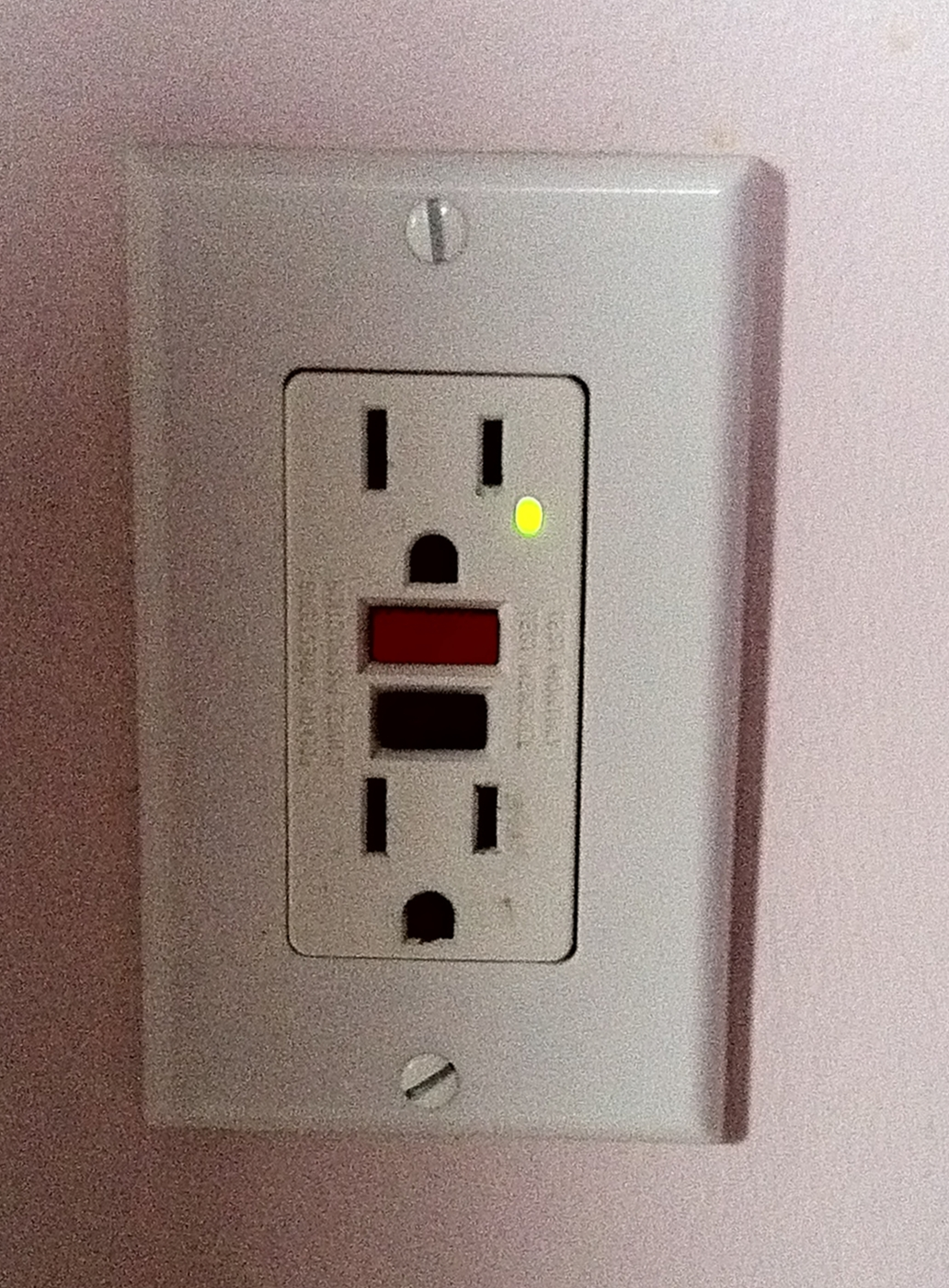 An example of a GFCI receptacle found in a bathroom.